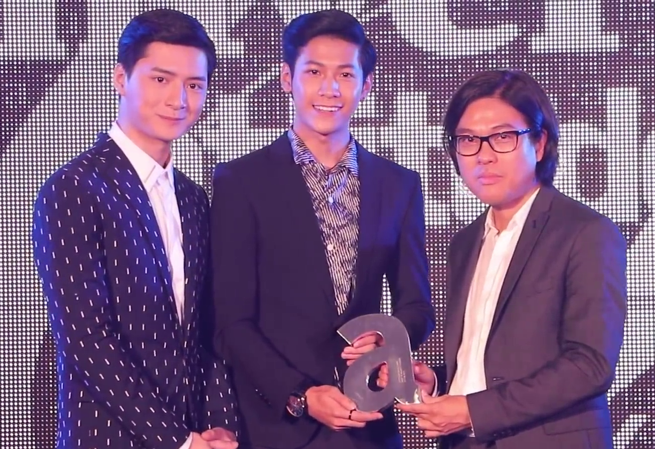 SOTUS The Series wins at attitude awards 2017